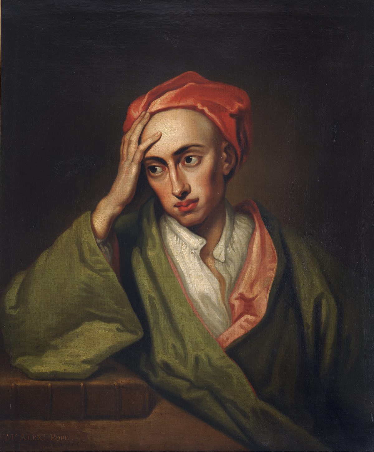 A 73.6 x 61 cm oil-on-canvas portrait painting of Alexander Pope by Godfrey Kneller held at St John's College, Cambridge